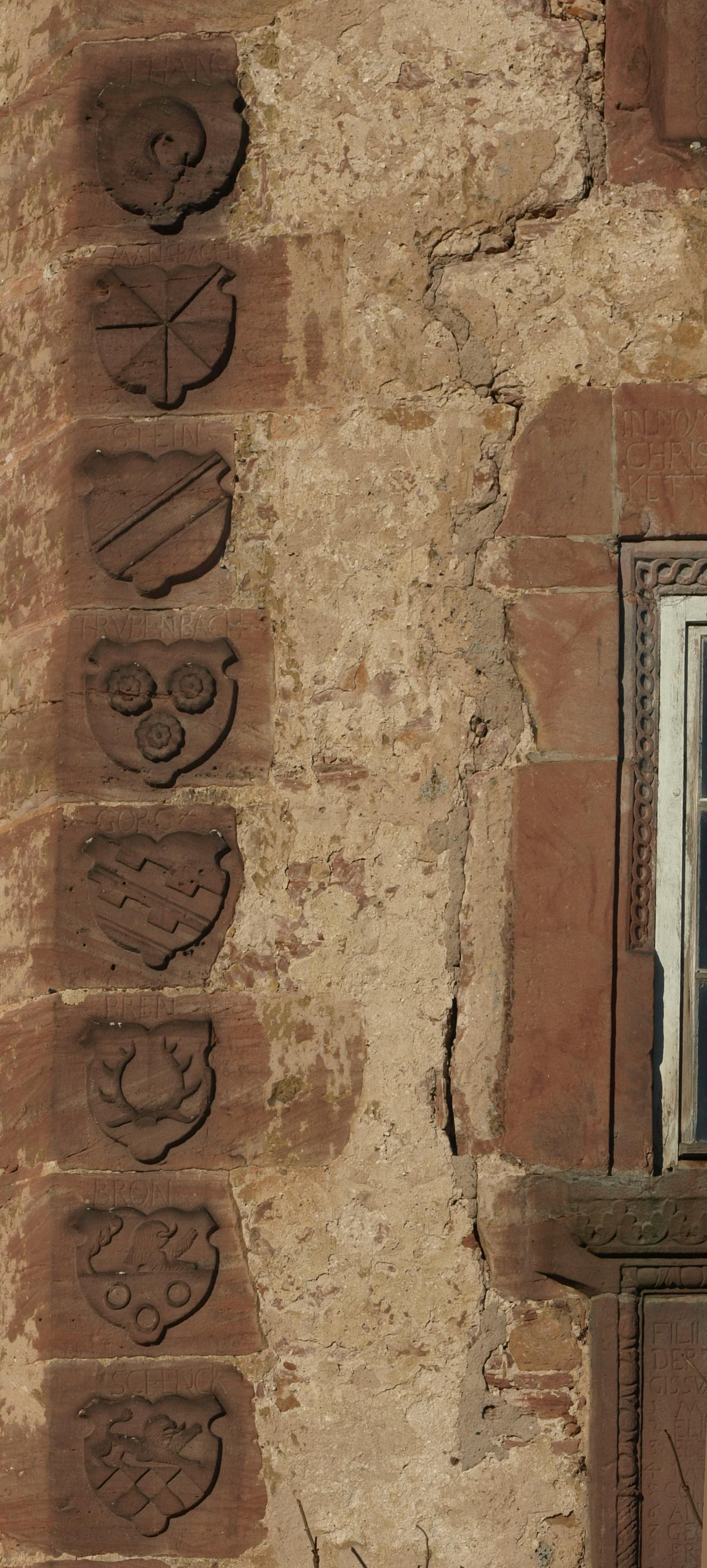 Ancestors of Christoph von Tann (* 1514; † 1575), indicated by family crests. Attached at polygonal tower of Blue Castle.